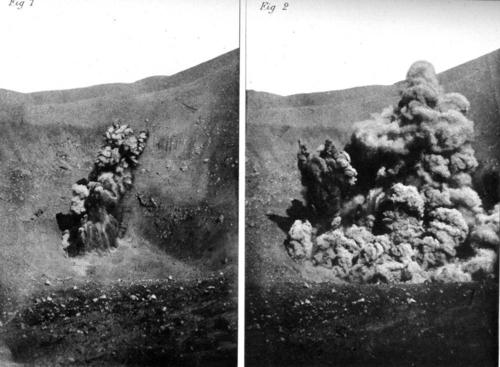 Explosion in the Gran Cratere of Vulcano, photographed from SW crater rim on 21 September 1889.